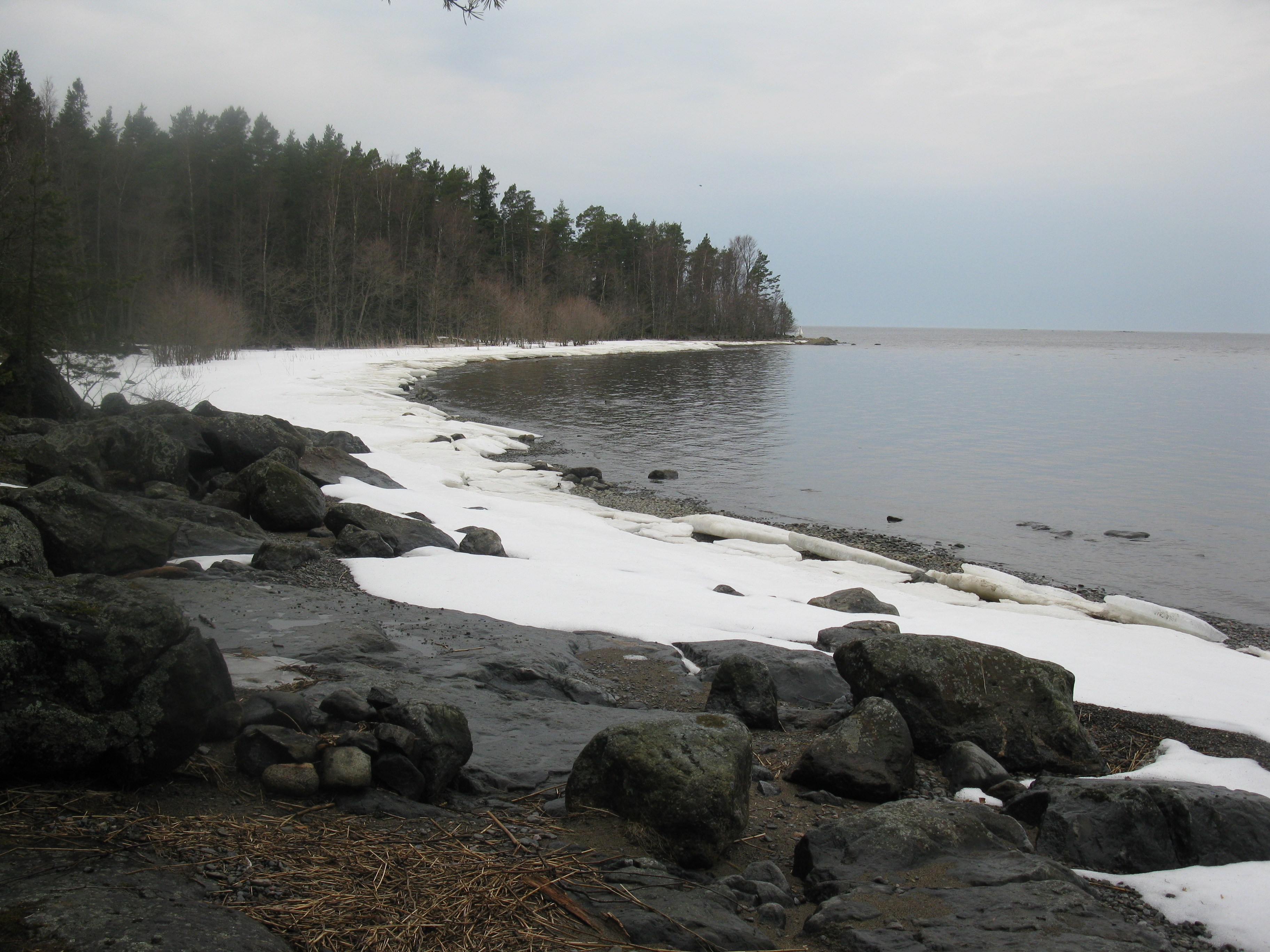 Saantee, Lanskatanlahti near Mäntykari in Ahlainen, Pori, Finland. Part of Pooskerin saaristo Natura 2000 area. Photo taken 6.4.2016.